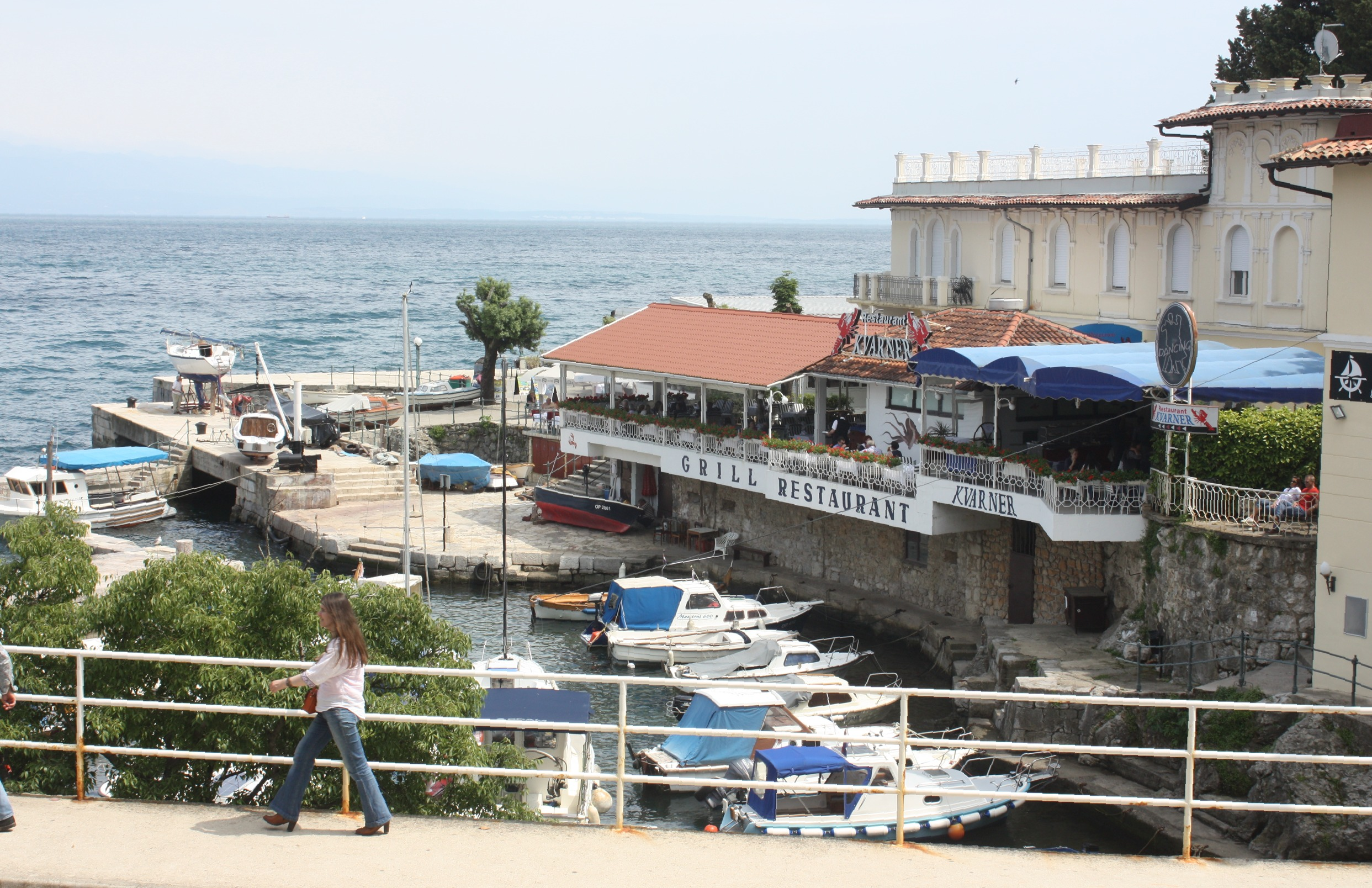 Lovran, the restaurant Kvarner